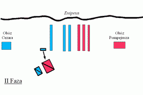 The second phase of the battle of Pharsalus